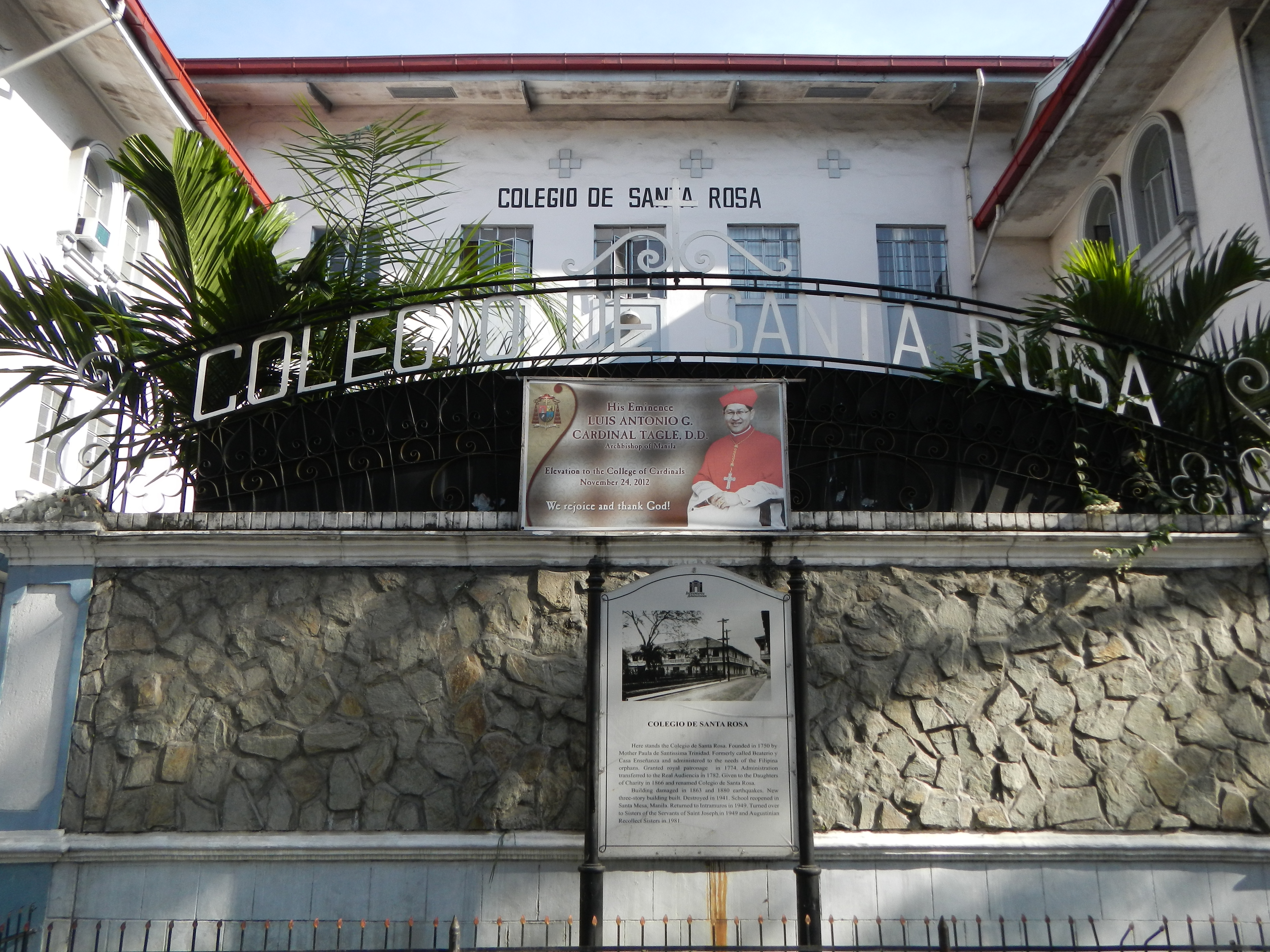 Upload Wizard photos of the - a) Plaza Santo Tomás, beside the Colegio de Santa Rosa, Intramuros, Manila[1]